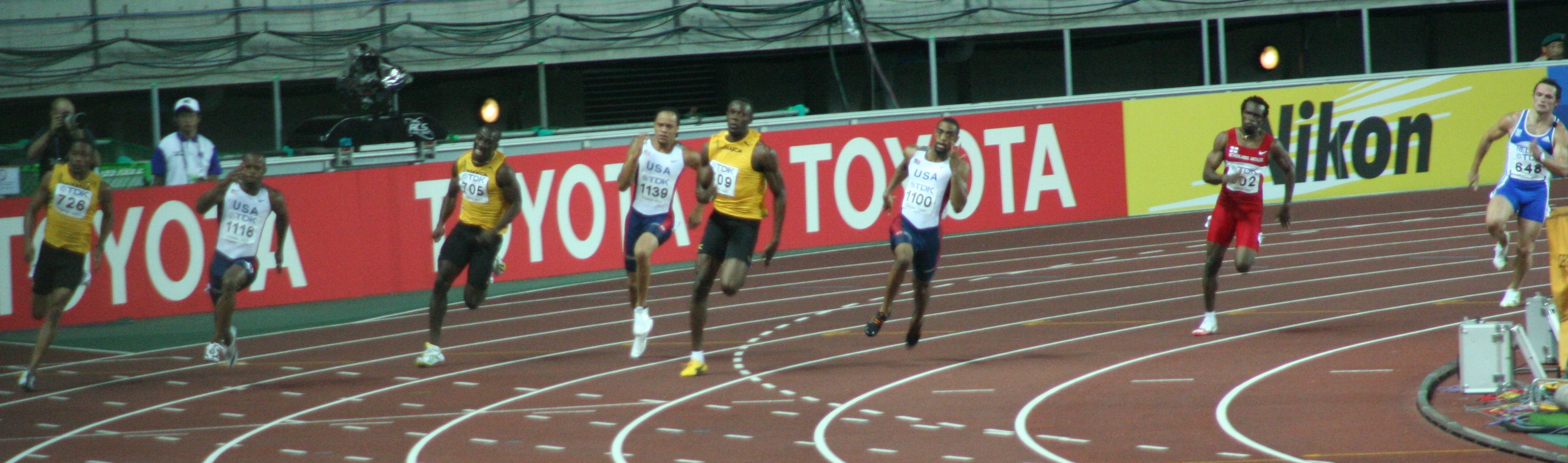 World Athletics Championships 2007 in Osaka - Scene from the final of the men*s 200 metres race: Christopher Williams, Rodney Martin, Marvin Anderson, Wallace Spearmon, Usain Bolt, Tyson Gay, Churandy Martina, Anastásios Goúsis